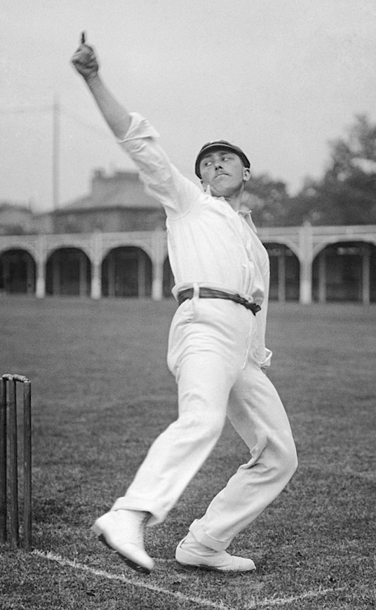 Photograph of Wilfred Rhodes bowling taken by George Beldam in 1906.